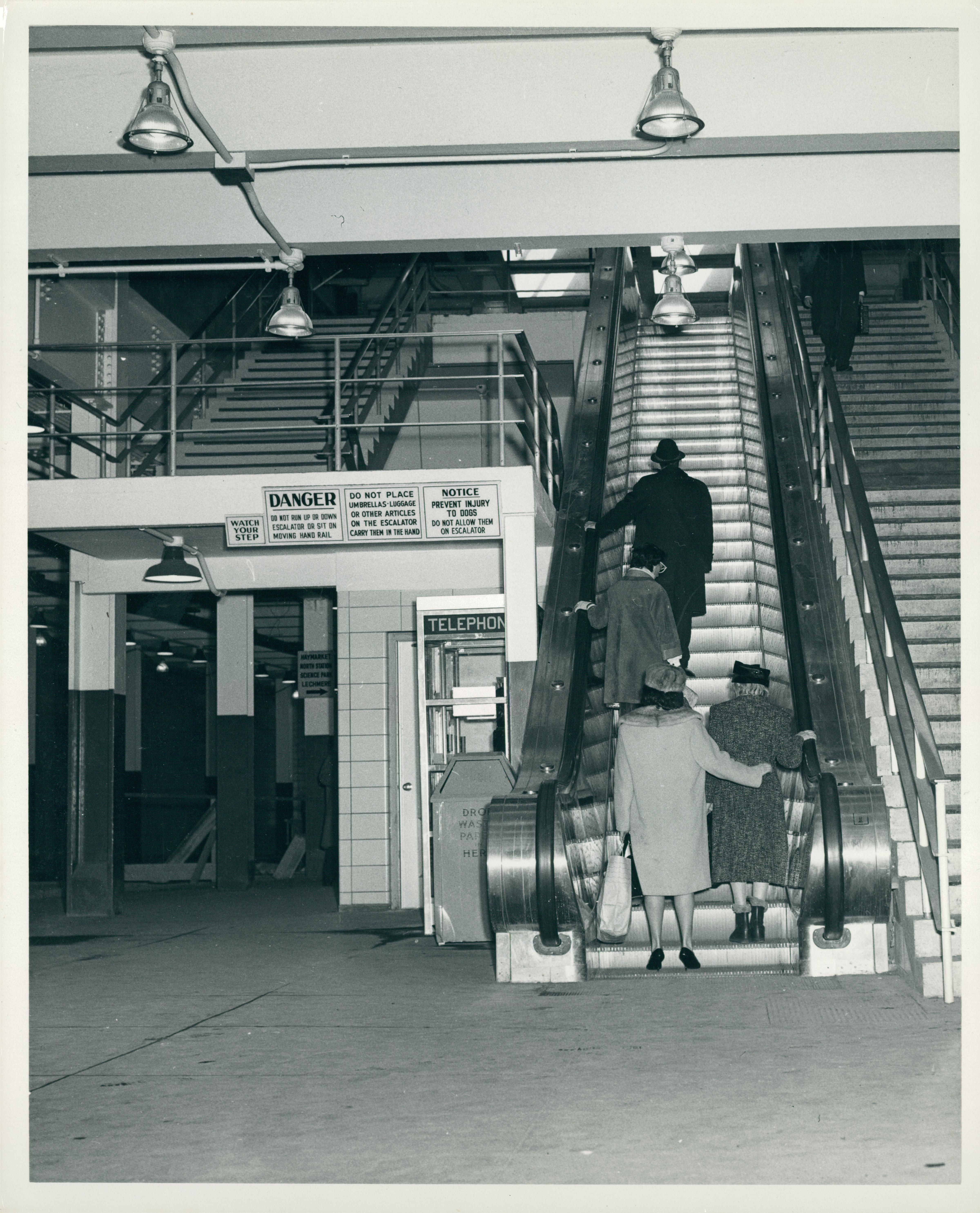 Escalator inside Government Center station in 1964, shortly after it was rebuilt.